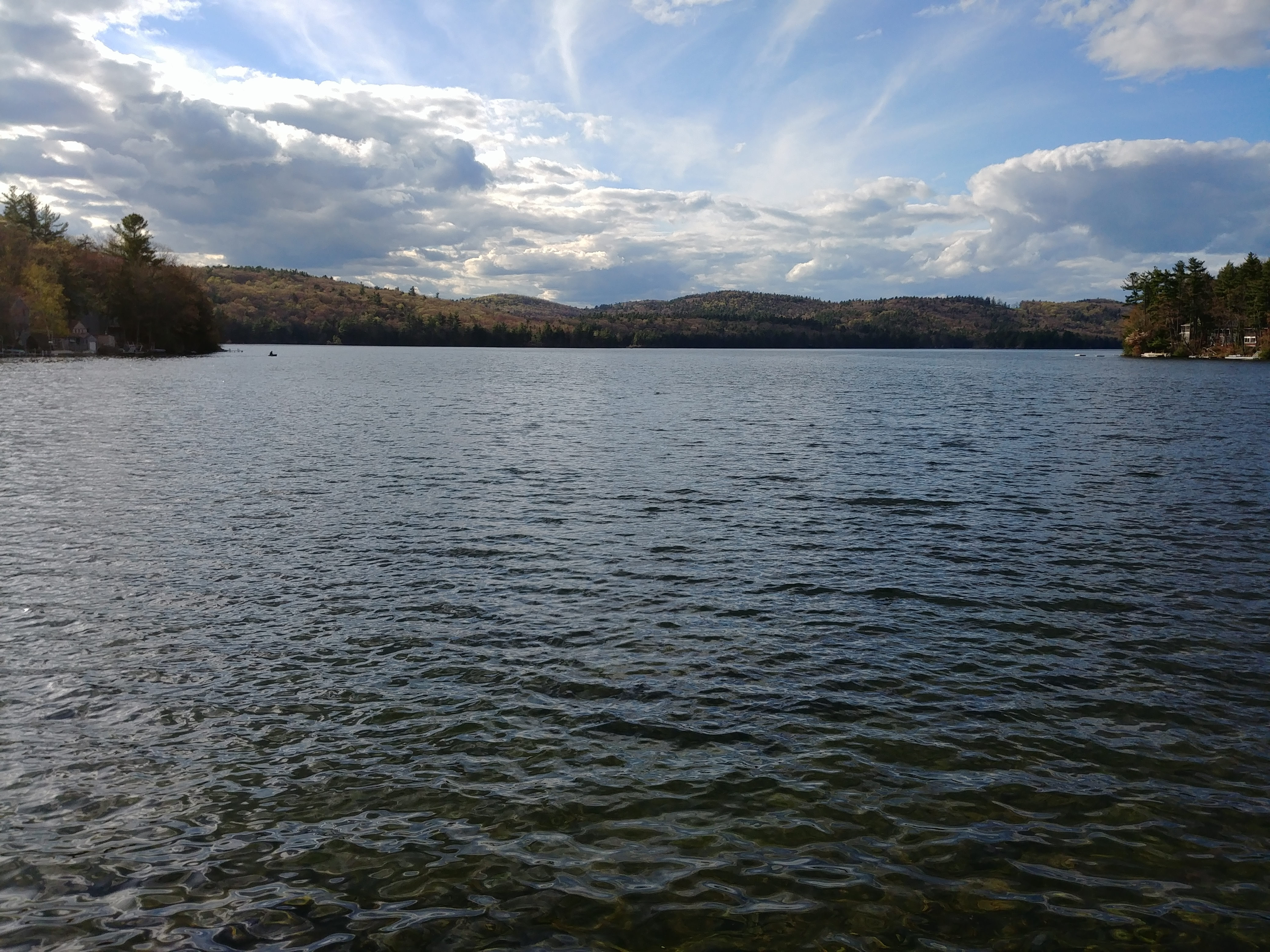 Image of the lake